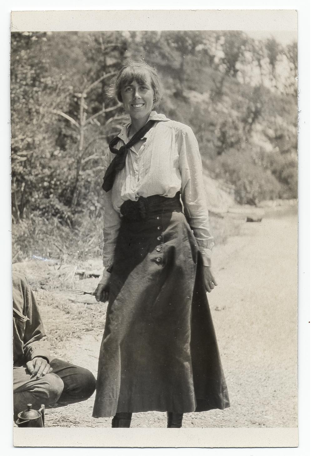 Description: Klitgaard standing outside holding a fork in her hand. Identification on verso (handwritten): Georgina Klitgaard. Klitgaard, Georgina, 1893-1976 Creator/Photographer: Unidentified photographer Medium: Black and white photographic print Dimensions: 9 cm x 6 cm Date: c. 1920 Persistent URL: Repository: Archives of American Art Collection: Forbes Watson Papers, 1900-1950 Accession number: aaa_watsforb_3601